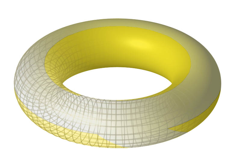 Minkowski's theorem's illustration, about geometrical arithmetics.